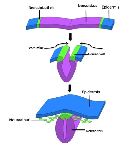 Neuraalharja moodustumine neurulatsiooni käigus